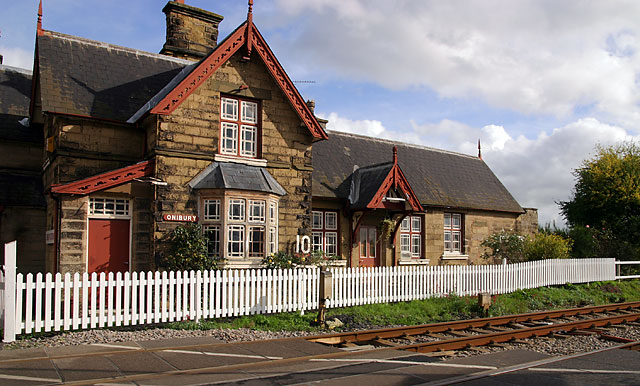 Onibury Station The level crossing and Onibury Station, now closed